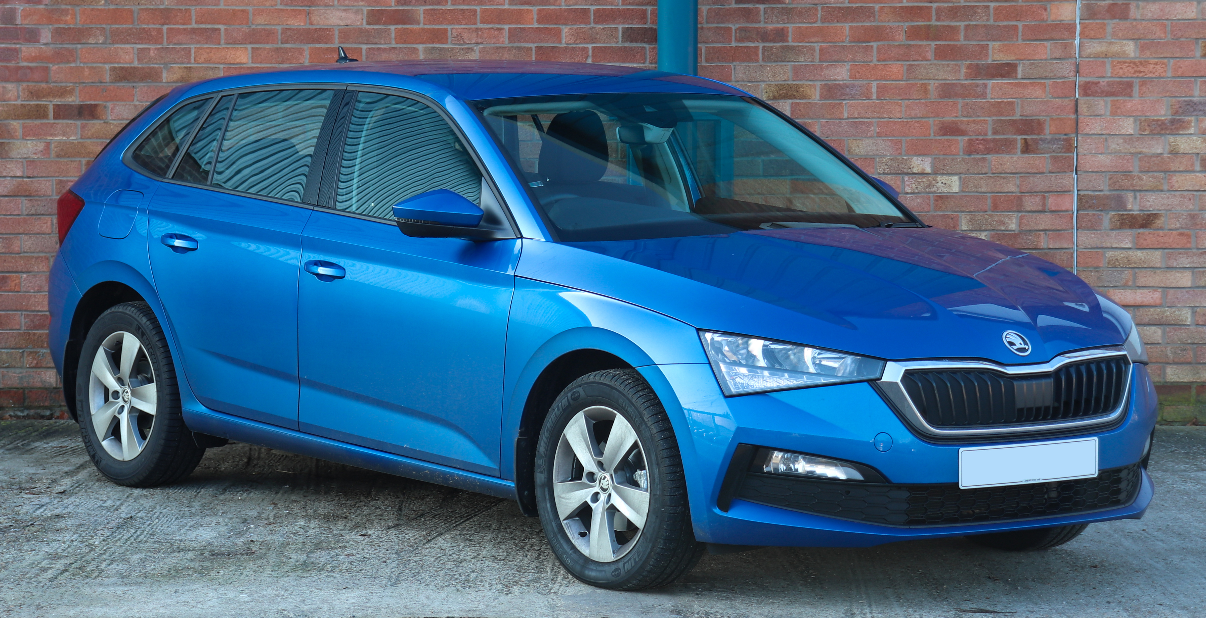 2019 Skoda Scala SE TDi 1.6 Front Taken in Sydenam, Leamington Spa